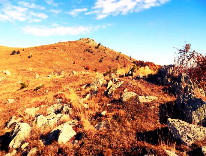 Aleksica shrine BG